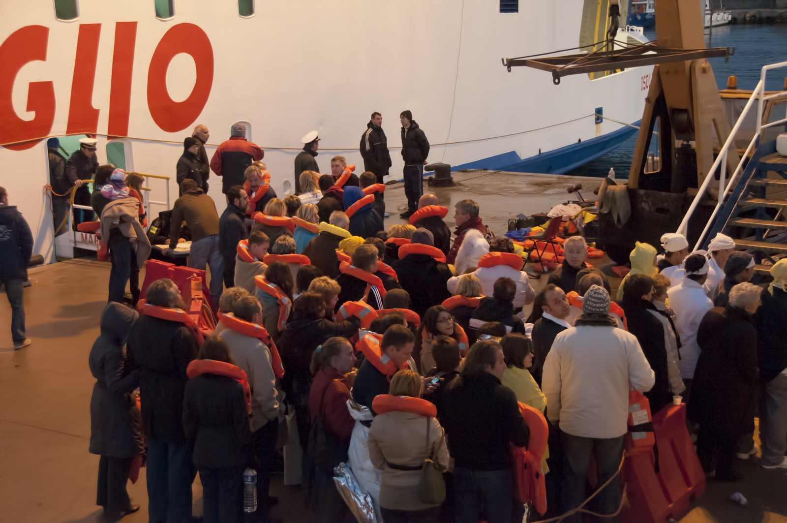 Sinking of the Costa Concordia - The castaways board the ferry waiting to be transported to Porto Santo Stefano.